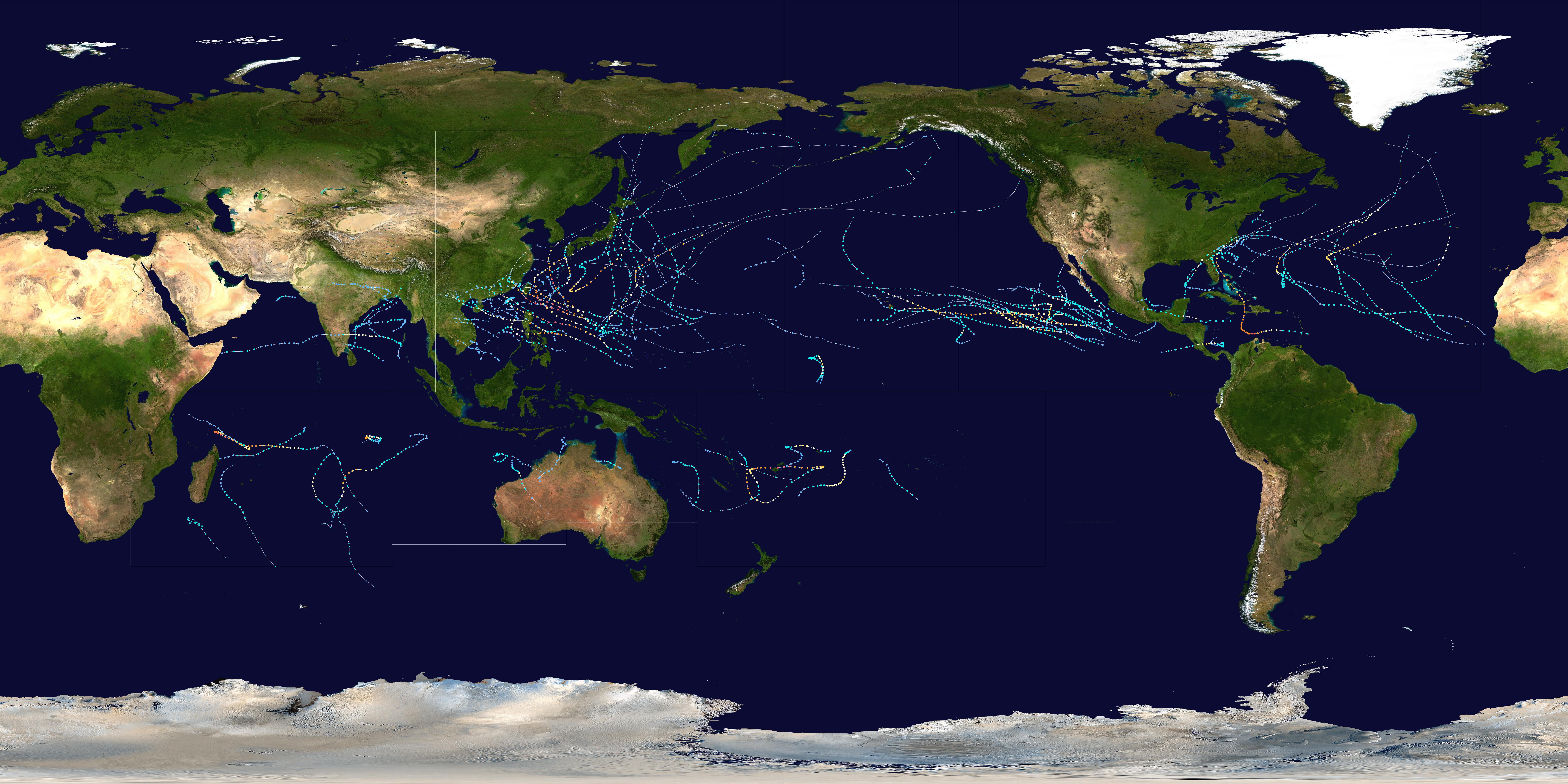 Tropical cyclones worldwide in 2016